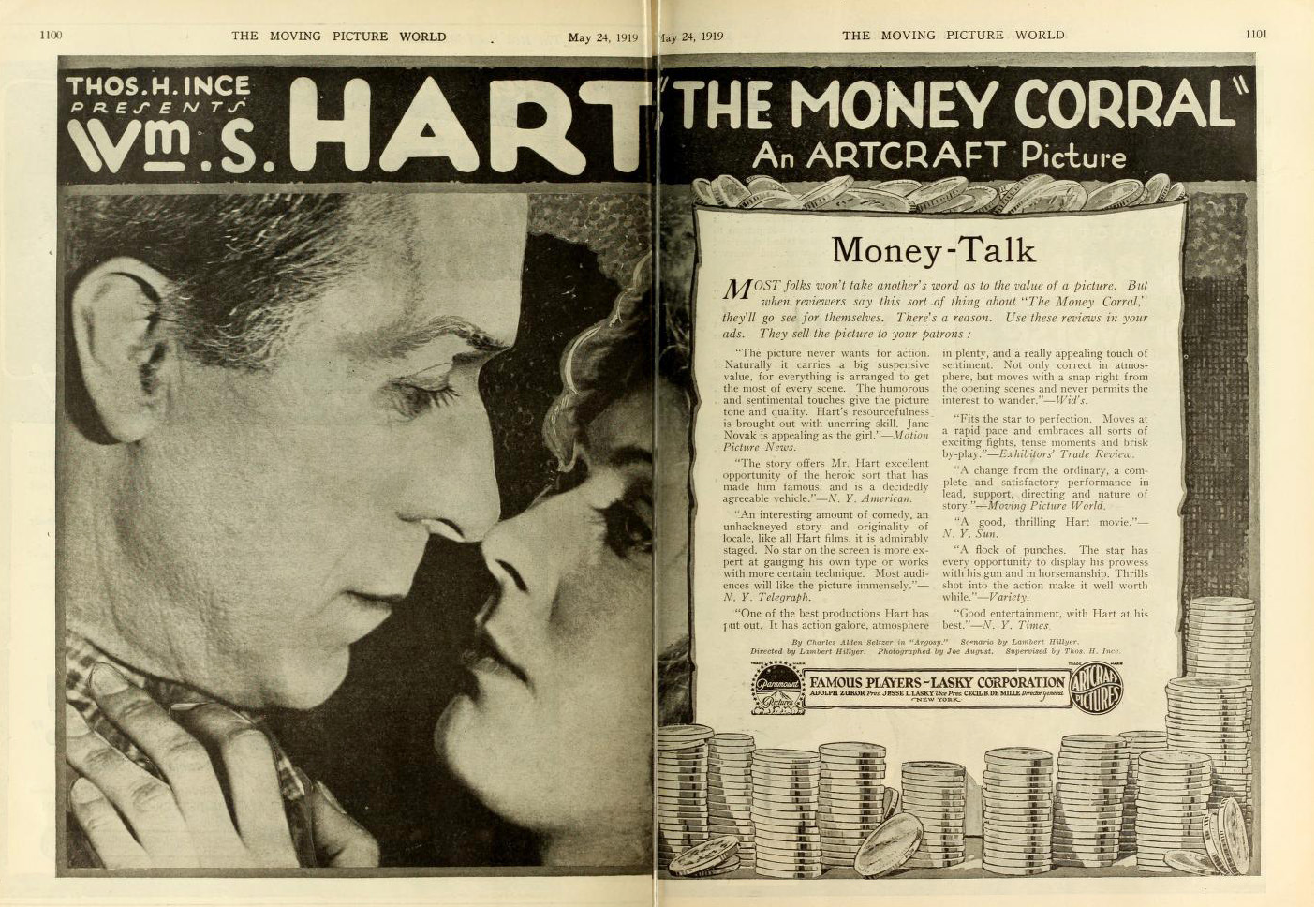 Advertisement in Moving Picture World, May 1919 for the film The Money Corral (1919).